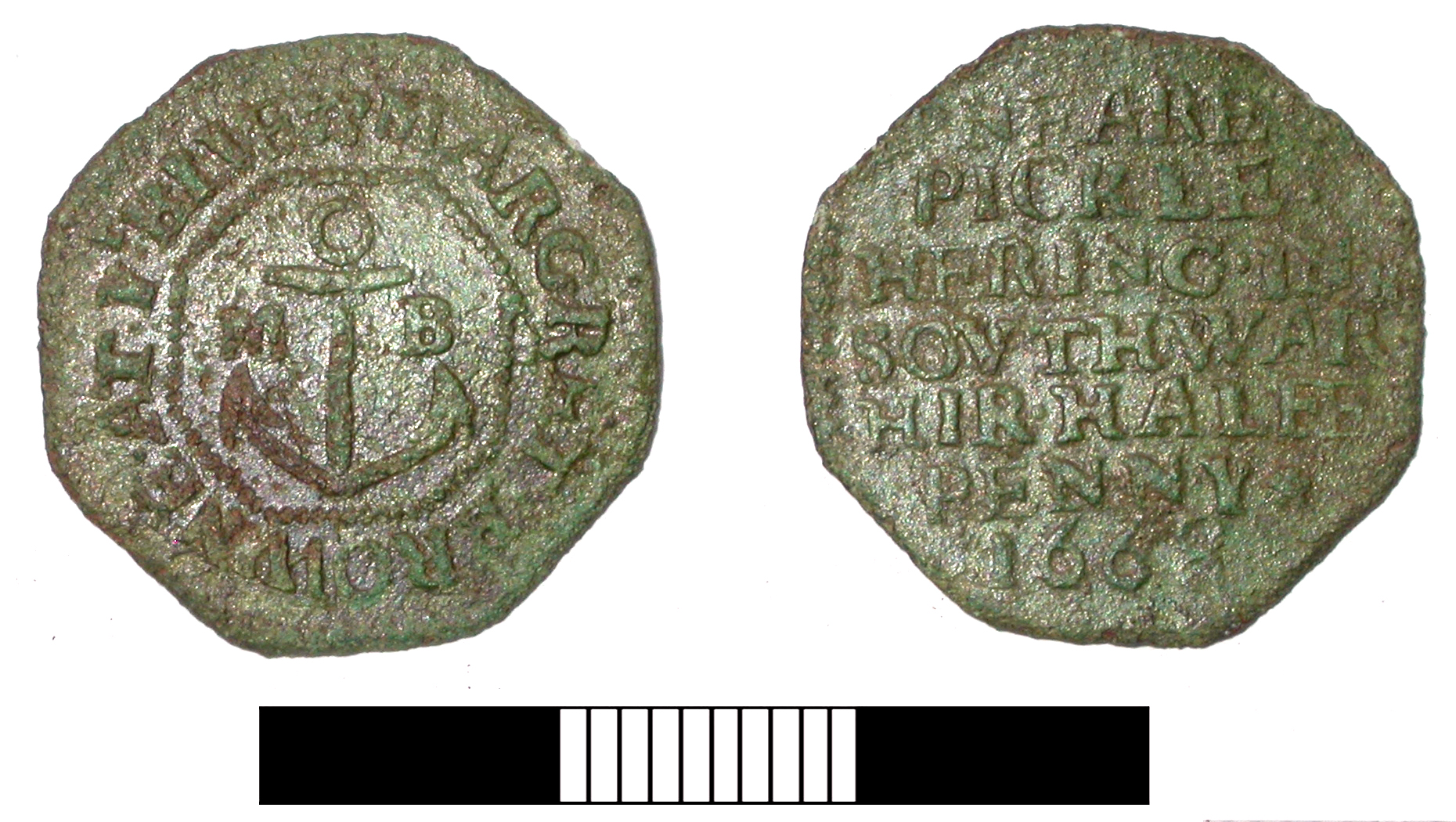 A traders token issued by Margaret Browne of the Anchor in Southwark. Side 1: MARGARET BROWNE AT Y BLUE/ MB (anchor) Side 2: NEARE/ PICKLE/ HERRING IN/SOUTHWAR/ HER HALF PENNY 1668